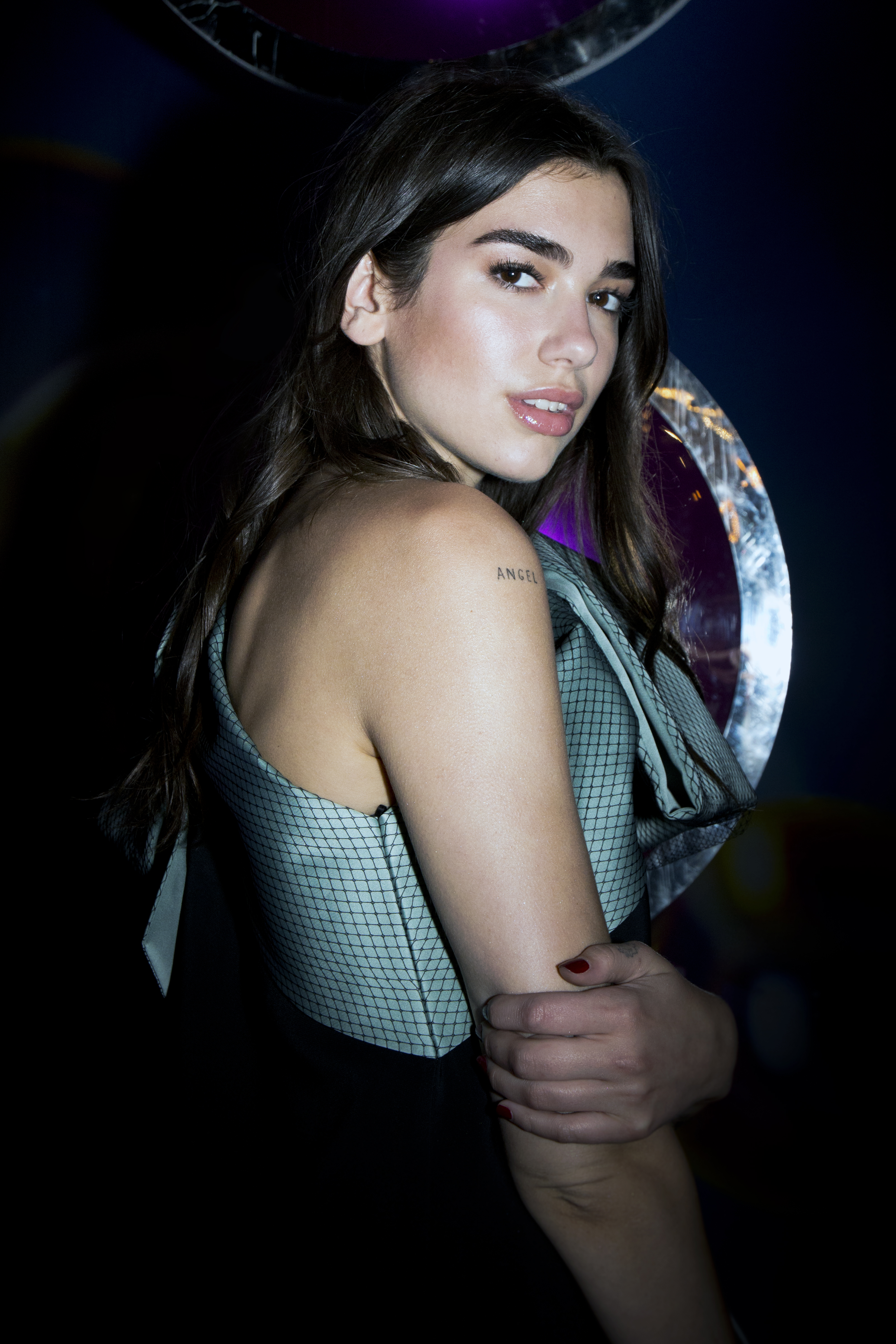 Dua Lipa perform in swedish tv show Sommarkrysset at Gröna Lund, Stockholm, Sweden.